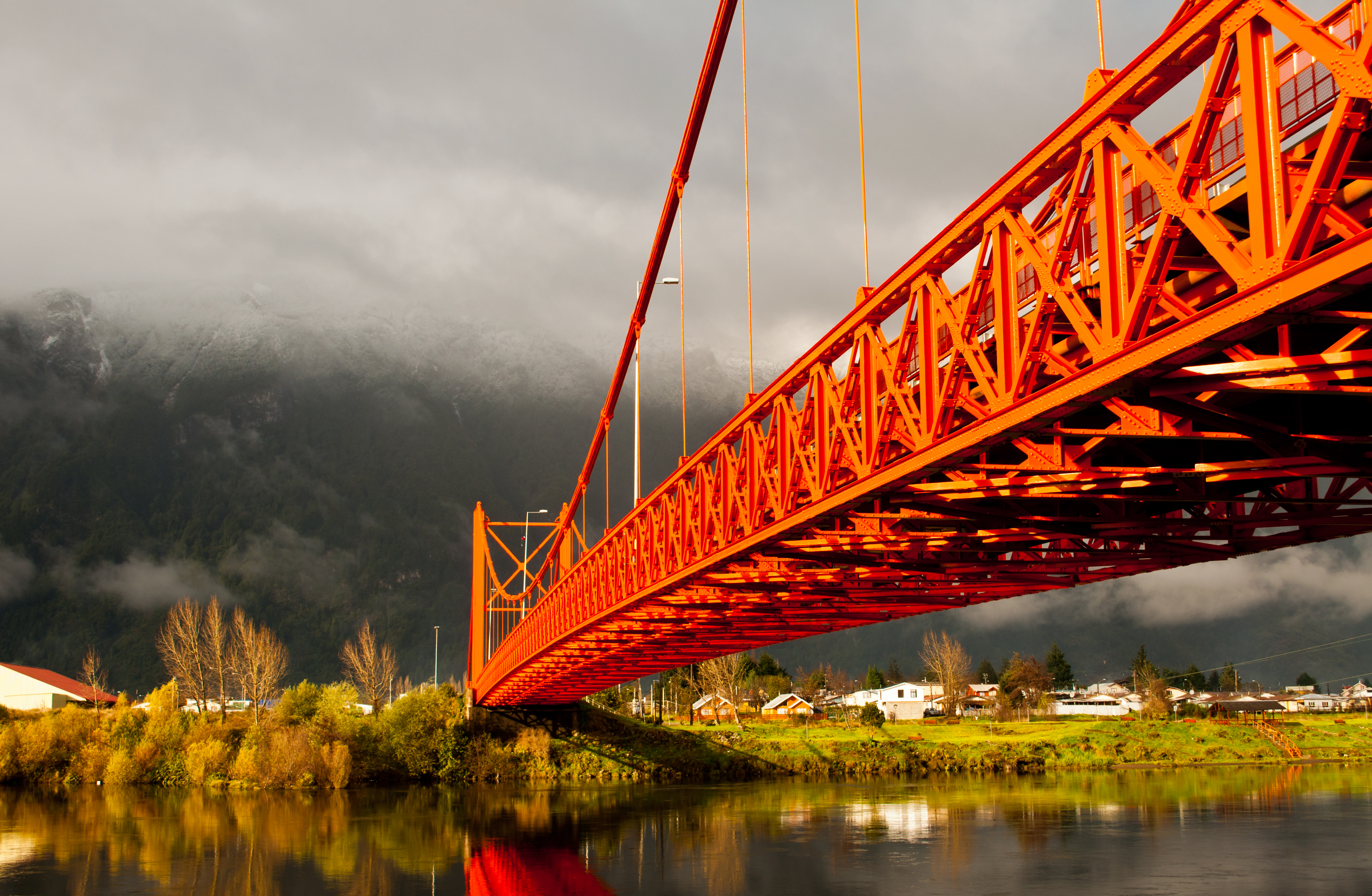 Aysen, Chile.